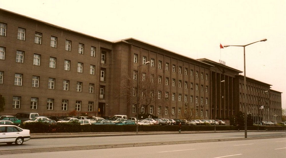 The front facade of the TCDD General HQ building.